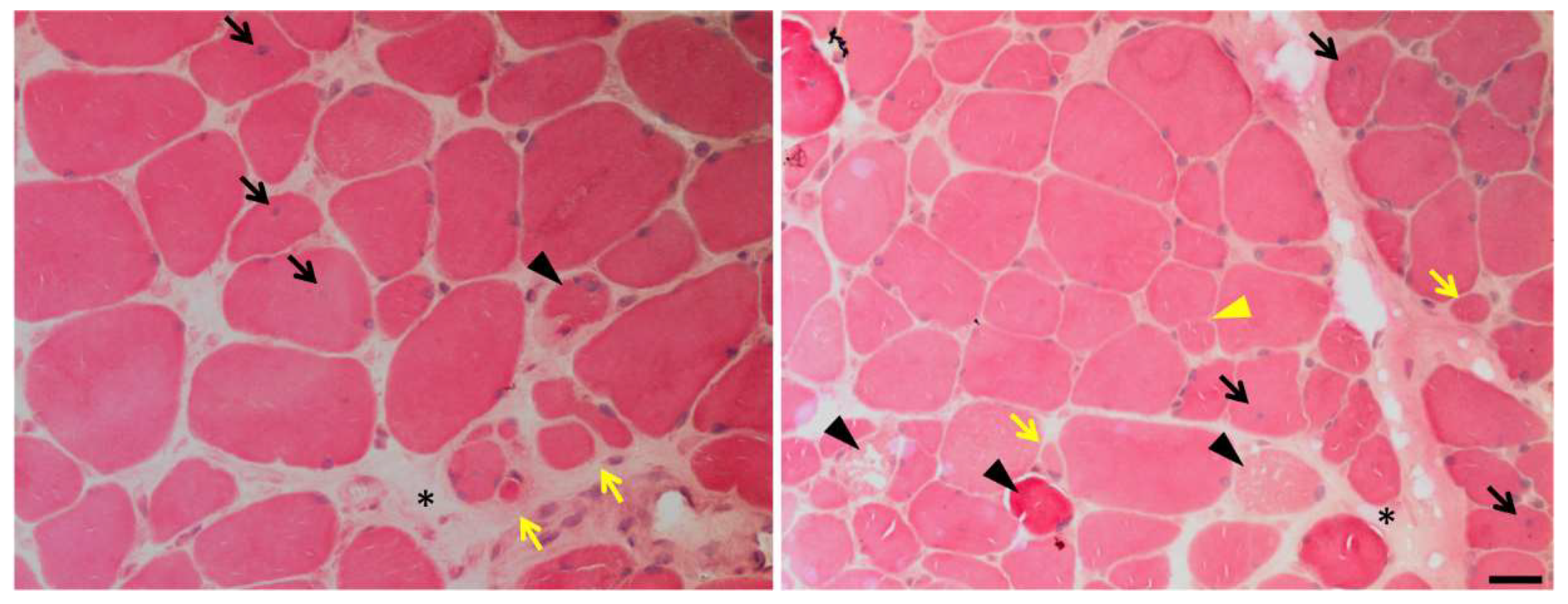 Microscopic view of muscle affected by calpainopathy, stained with hemotoxylin and eosin. Seen in these views are endomysial fibrosis (black asterisks), central nuclei (black arrows), fiber splitting (yellow triangle), necrosis (black triangles), atrophic fibers (yellow arrows), and increased variation in size and shape. Scale bar: 25µm